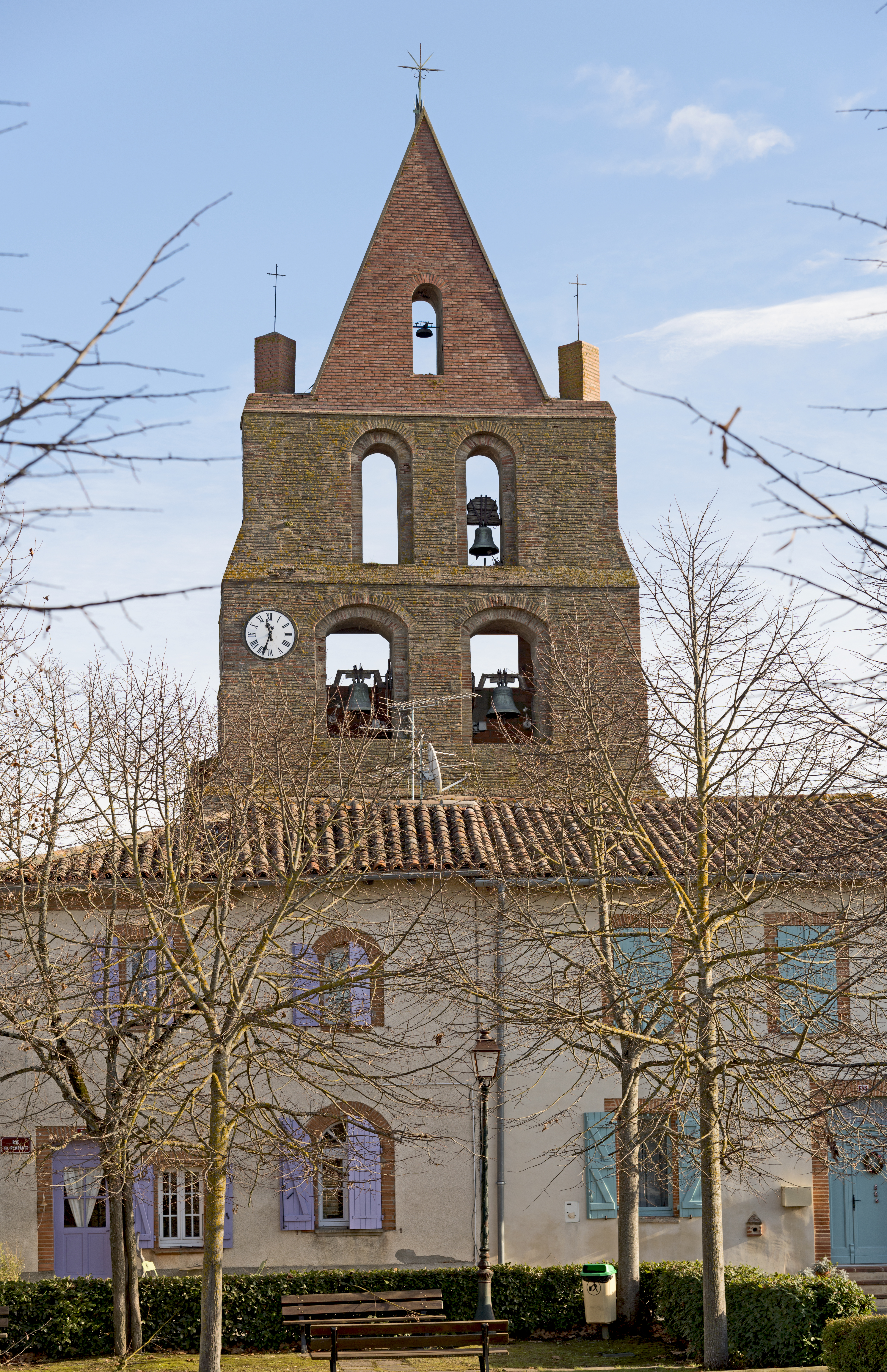 Saint-Cézert, Haute-Garonne, France. Bell gables of the church St. Orens.